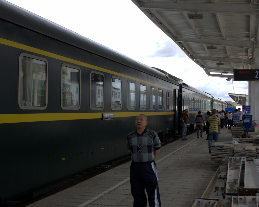 Stop on the QingZang Railway